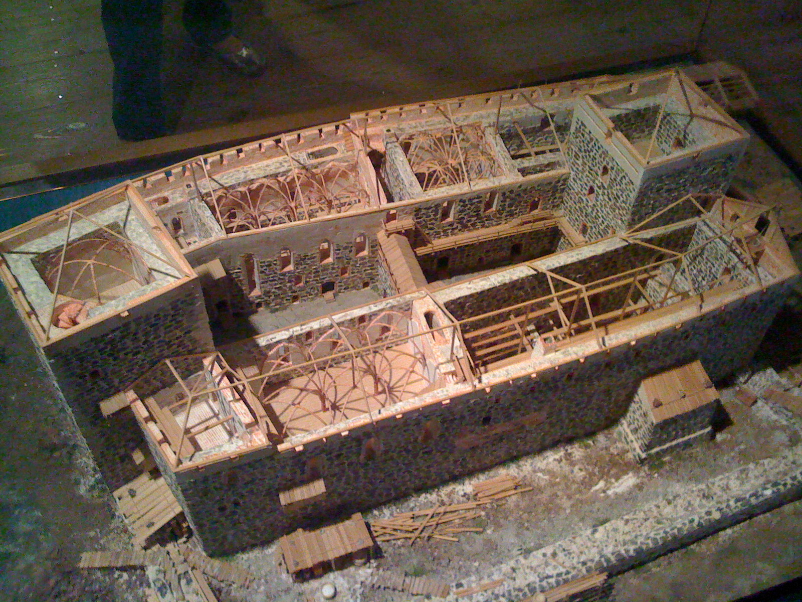 Turku castle in the 14th century